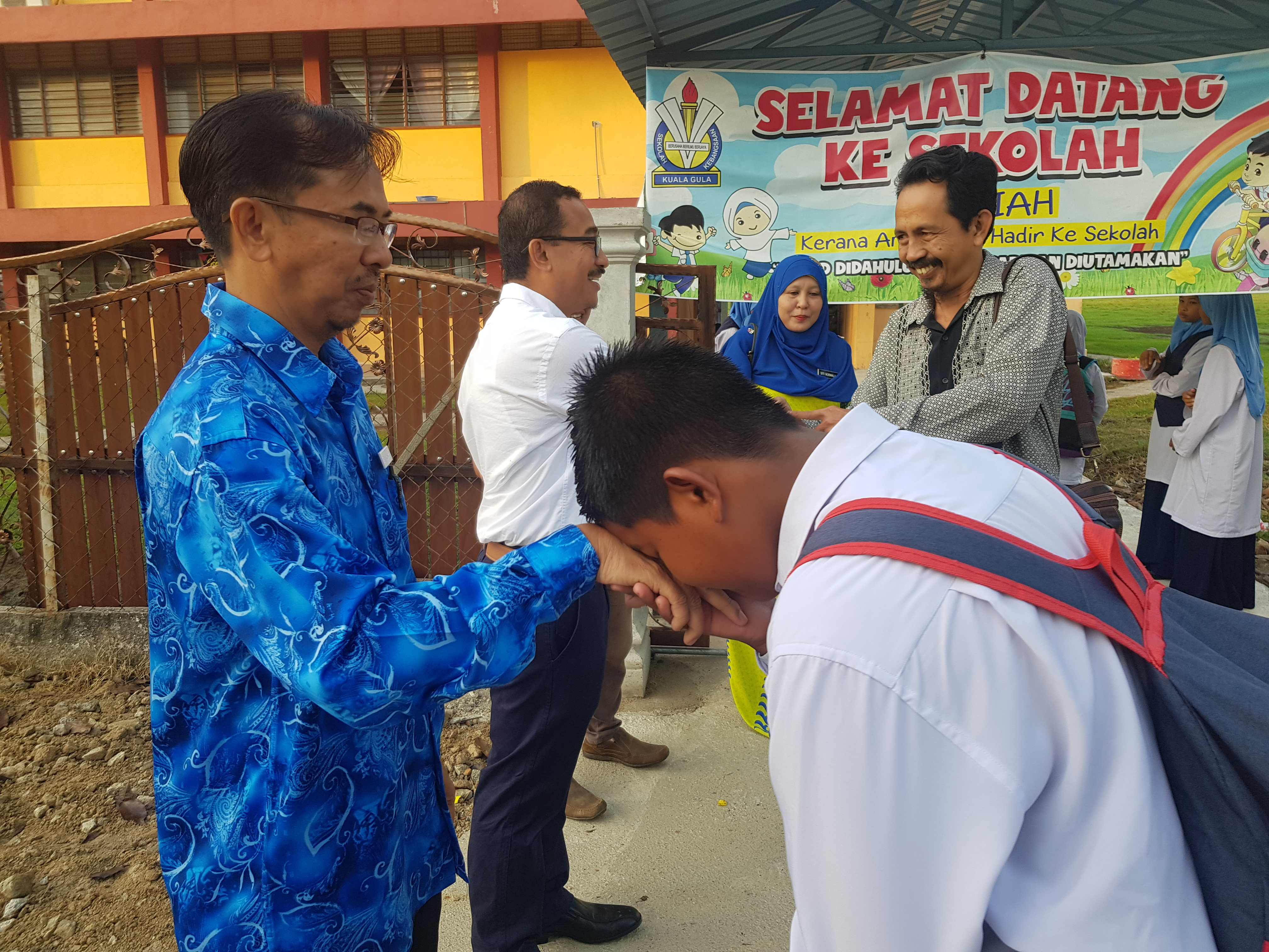 Let's go to school campaign.